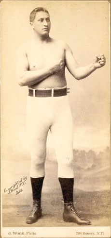 Promotional photo of the Maori boxer Herbert Slade, 1883.